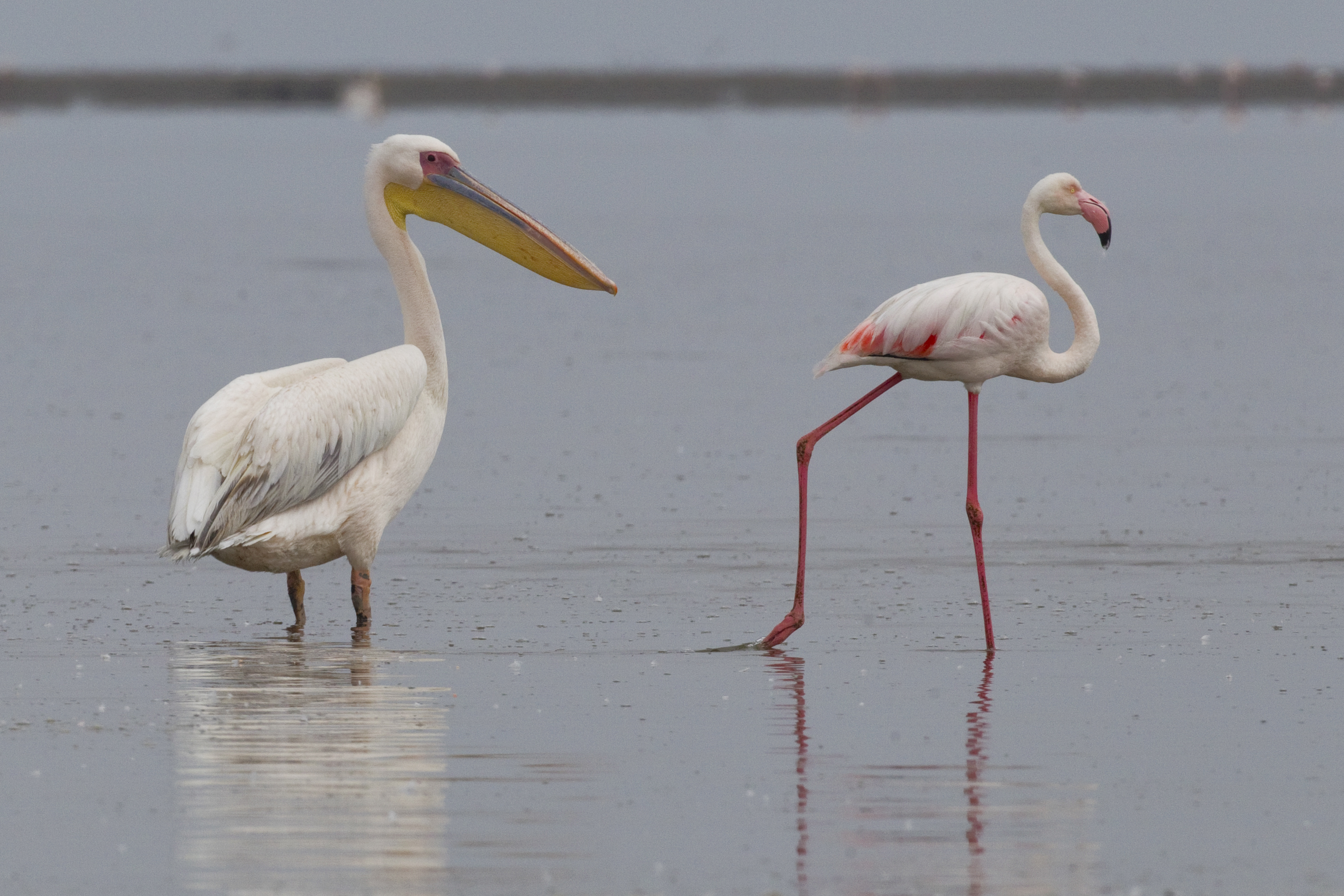 Greater flamingo with a great white pelican